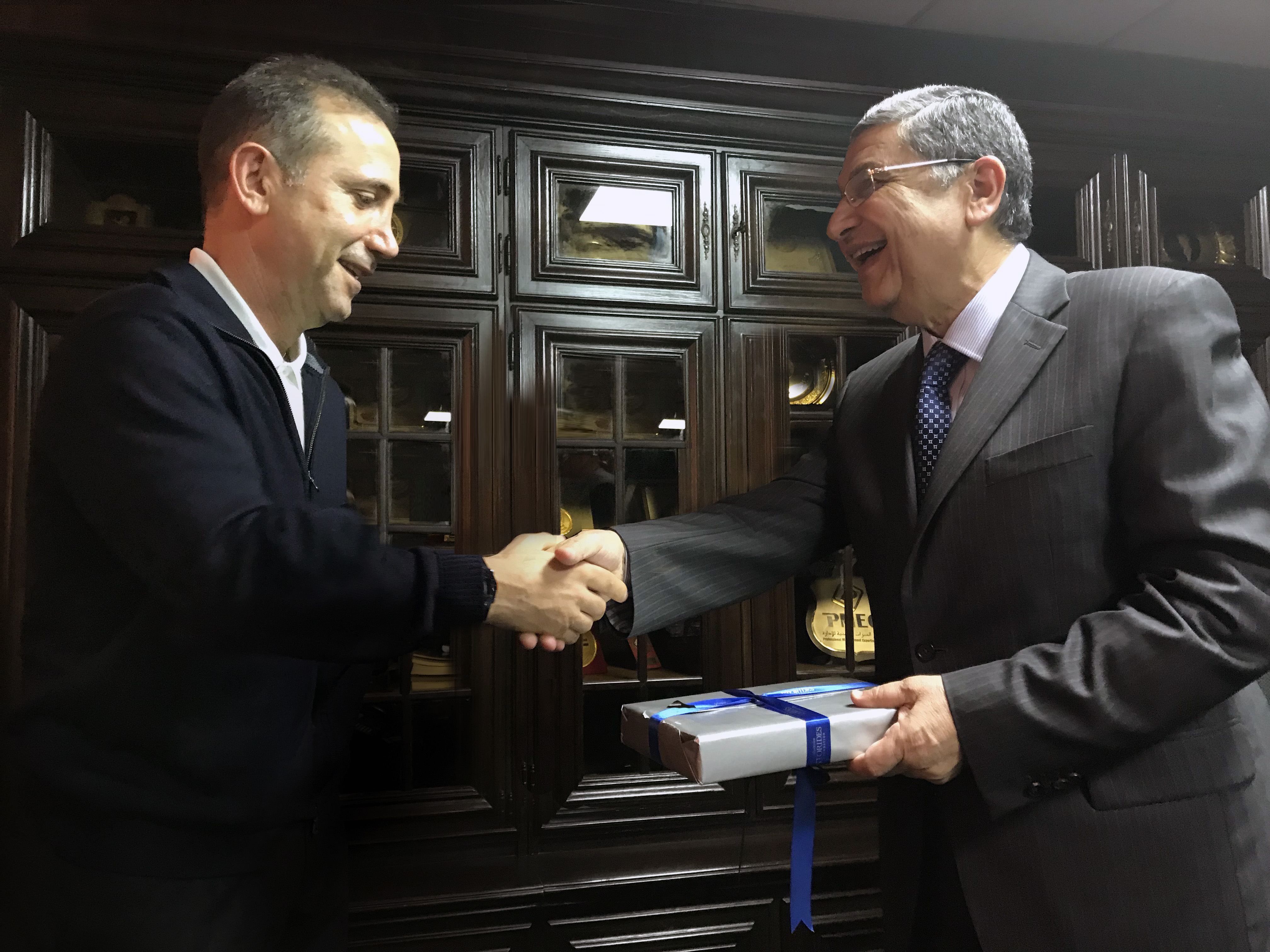 Minister of Electricity and Renewable Energy of Egypt, Dr. Mohamed Shaker and the Chairman and CEO EuroAfrica Interconnector Nasos Ktorides on meeting February 26, 2018 in Cairo